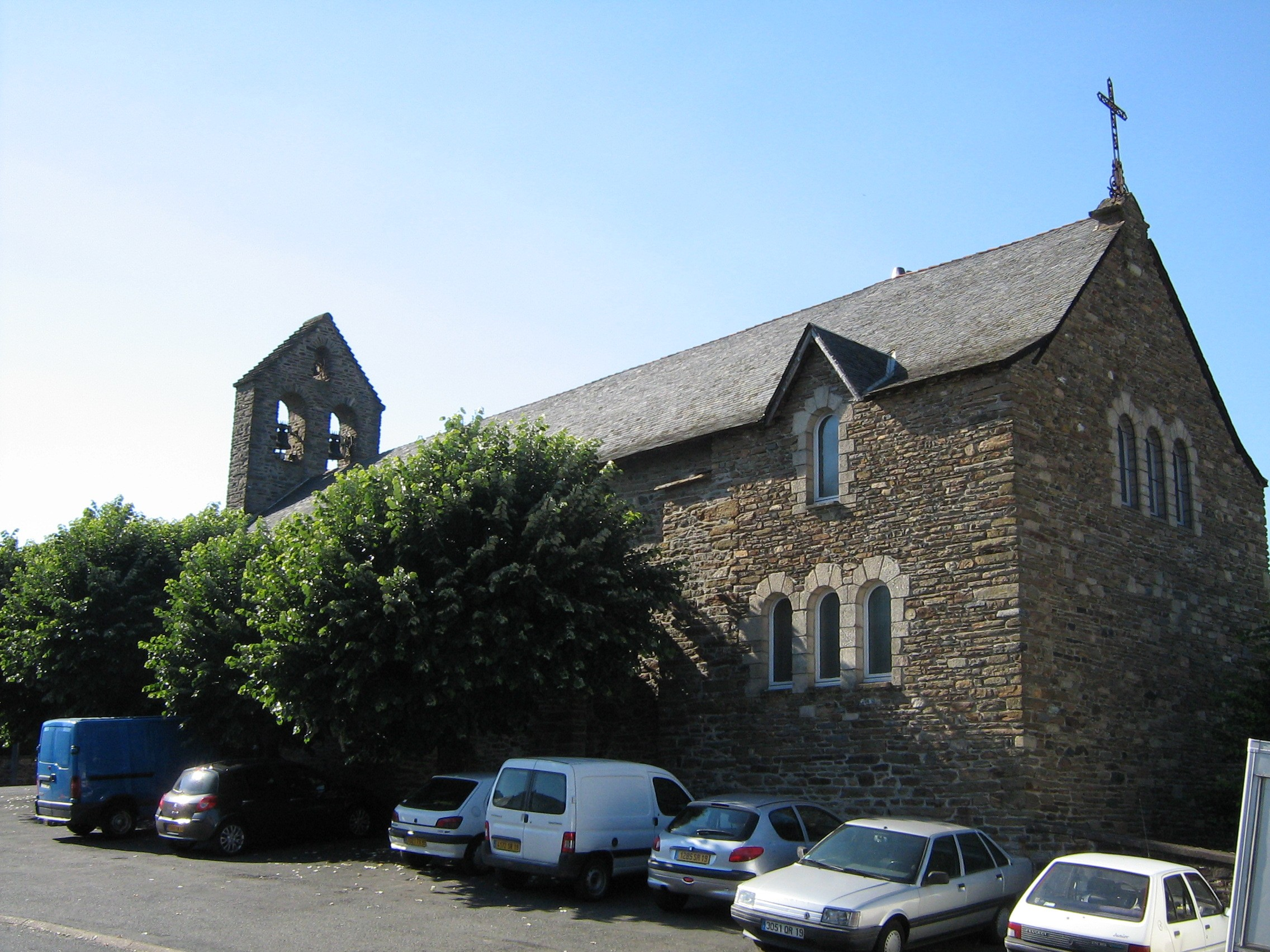 uzerche